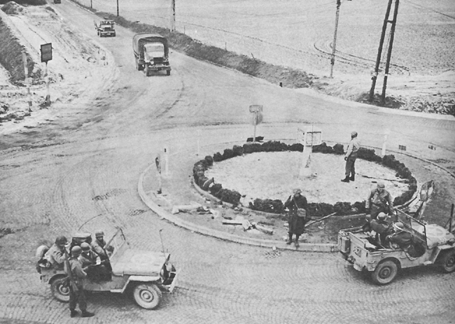 84TH Division MPs checking vehicles at traffic circle near Marche, Belgium.